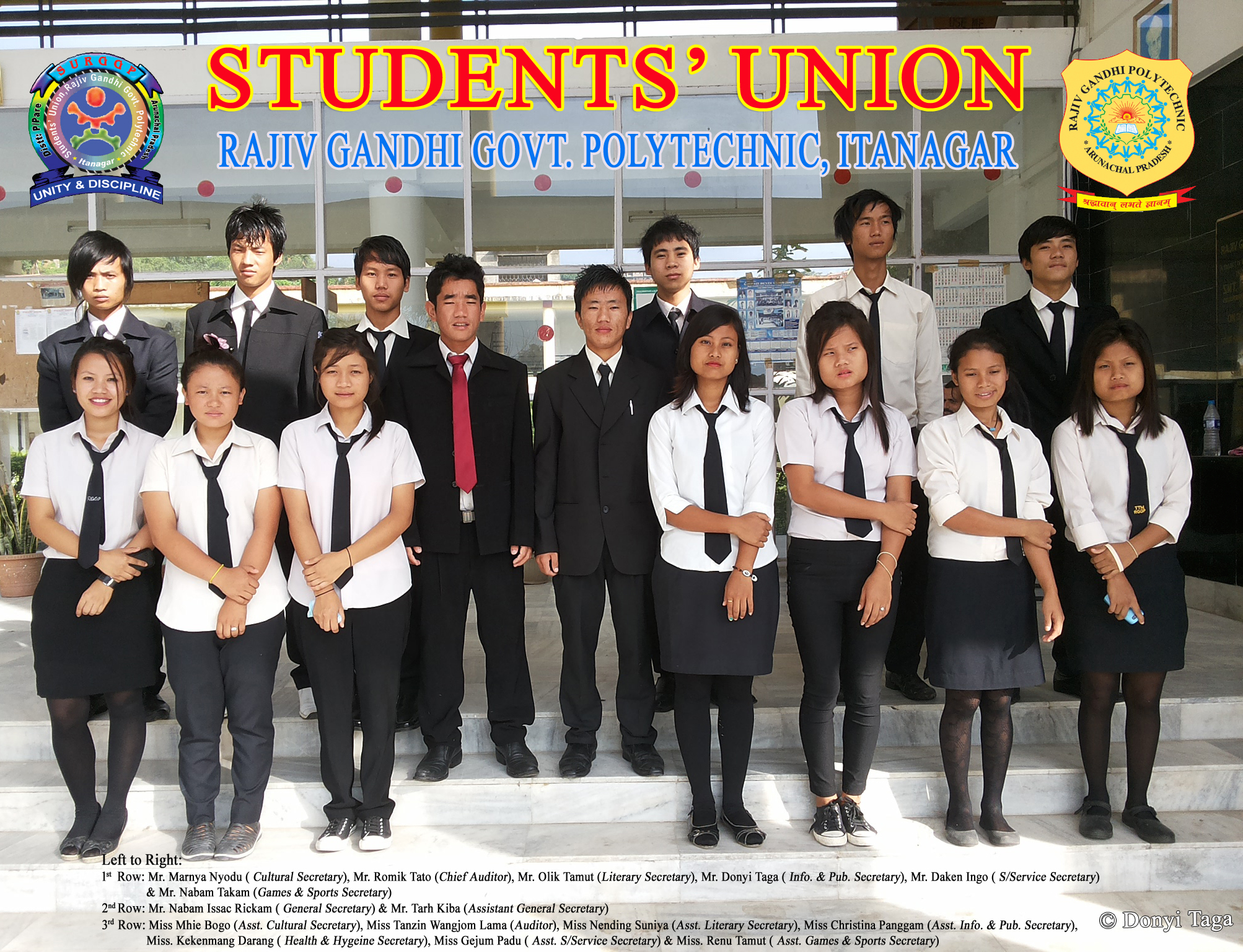 Cabinet Member of SURGGP, Itanagar (2013-14)